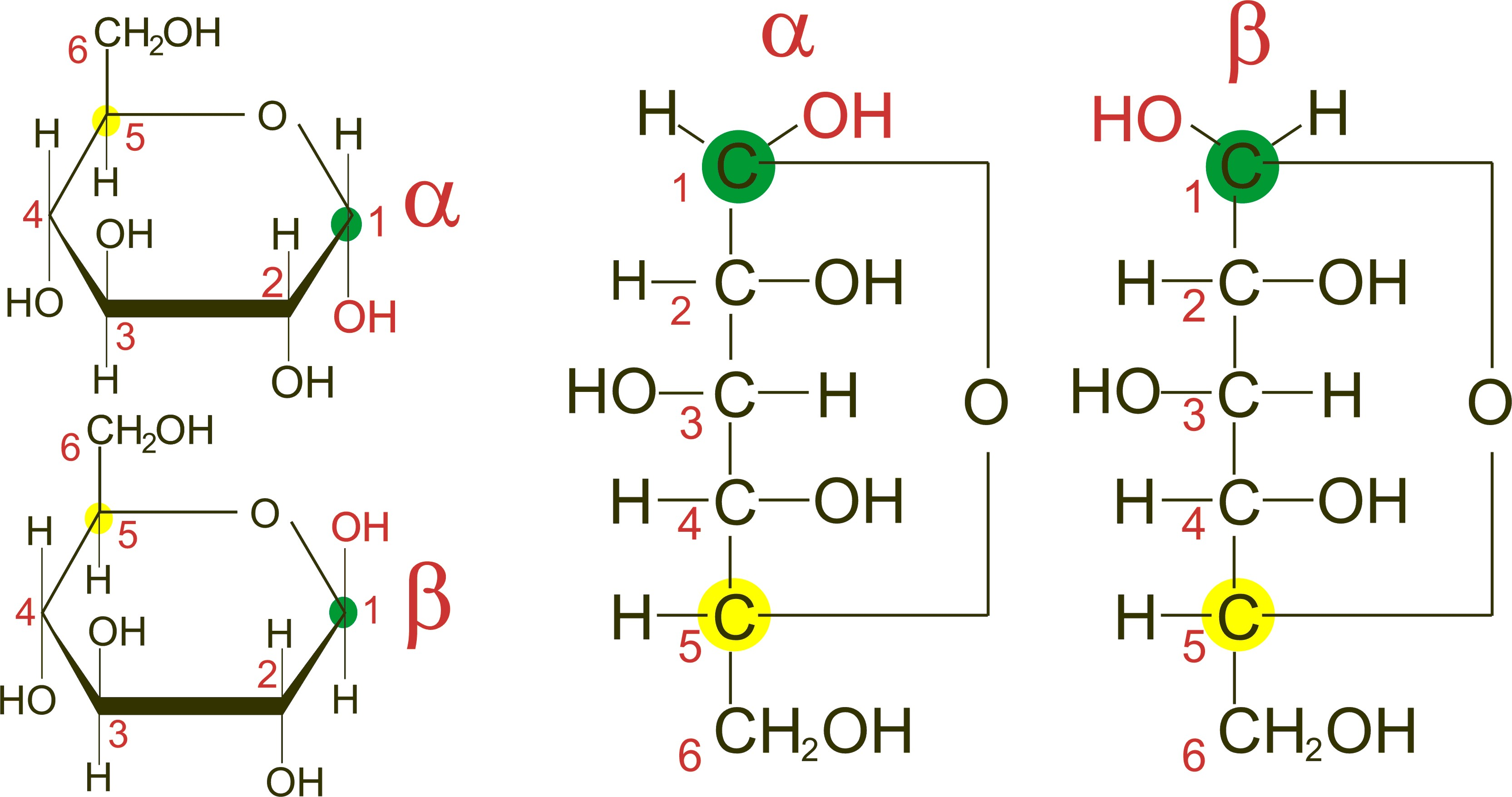 glucose anomers in Haworth and Fischer projections jpg